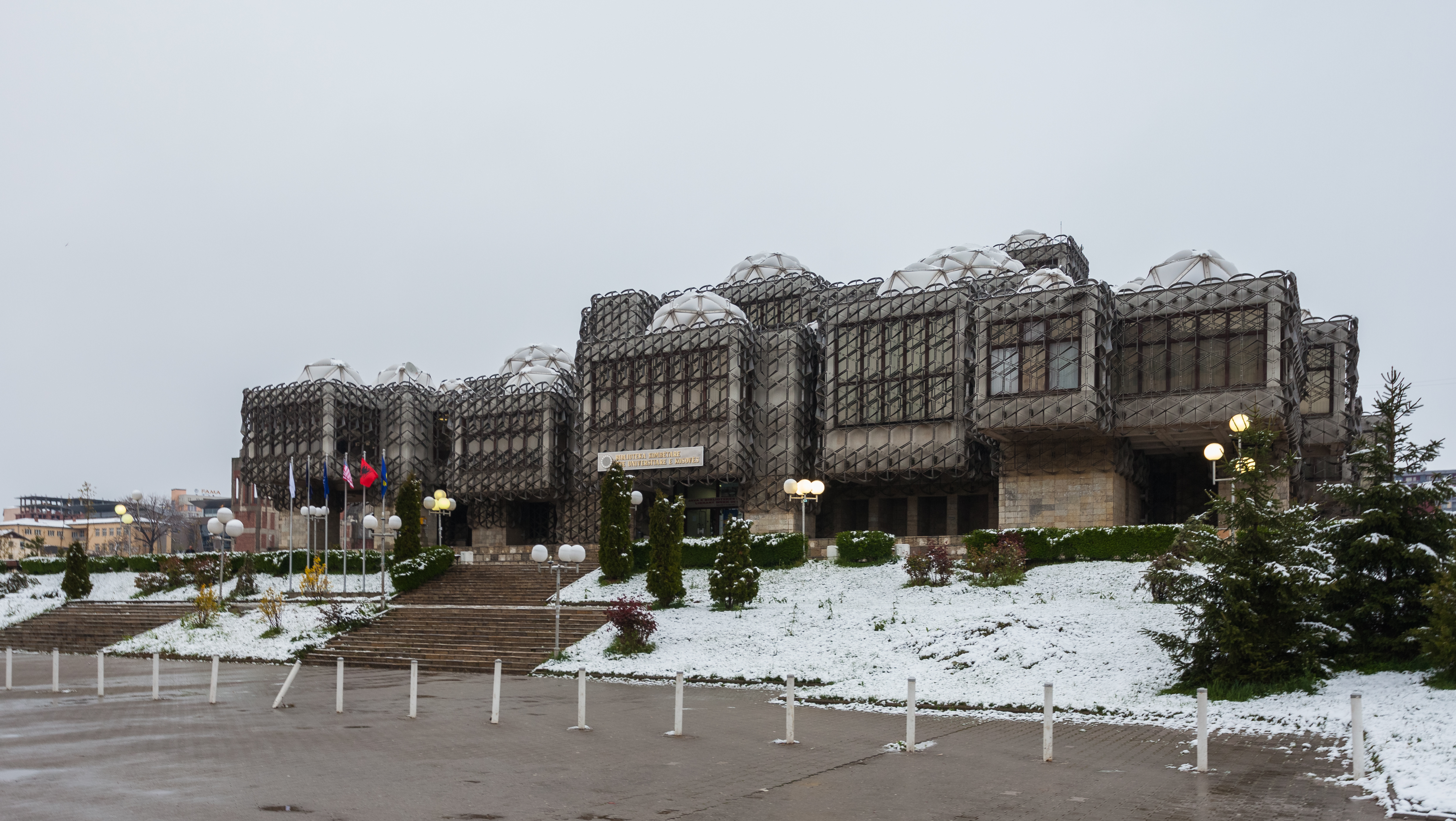 National Library, Pristina, Kosovo